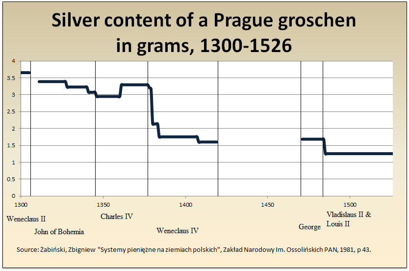 Chart showing silver content in grams of the Prague groschen